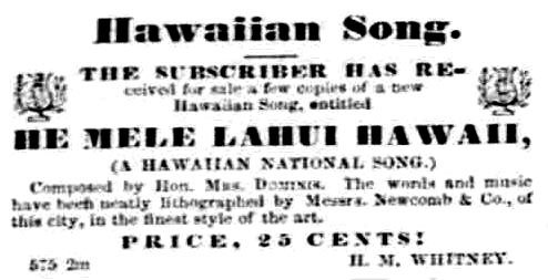 "Composed by Hon. Mrs. Dominis (Queen Liliuokalani). The words and music have been neatly lithographed by Messrs. Newcomb & Co., of this city, in the finest style of the art. Price, 25 cents! Henry Martyn Whitney." Hawaiian Song Pacific commercial advertiser, June 8, 1867, Image 3 Hawaii Digital Newspaper Project